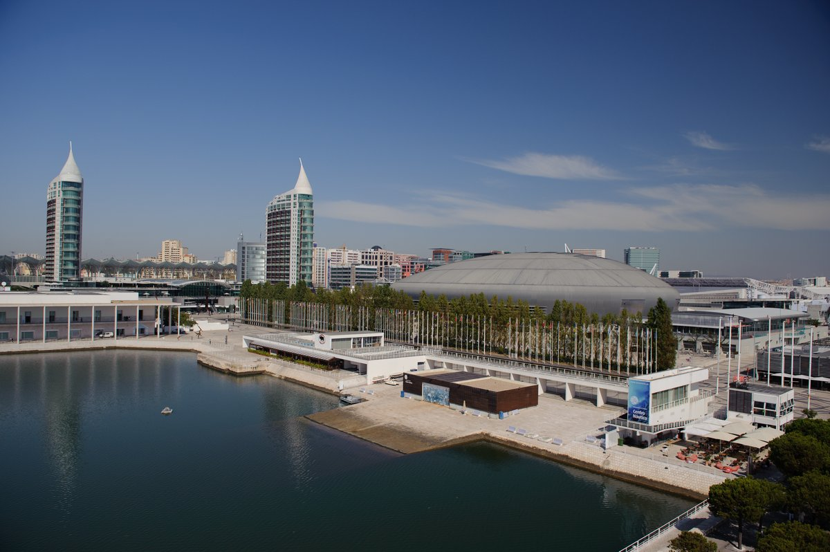 Parque das Nações - Vista Geral